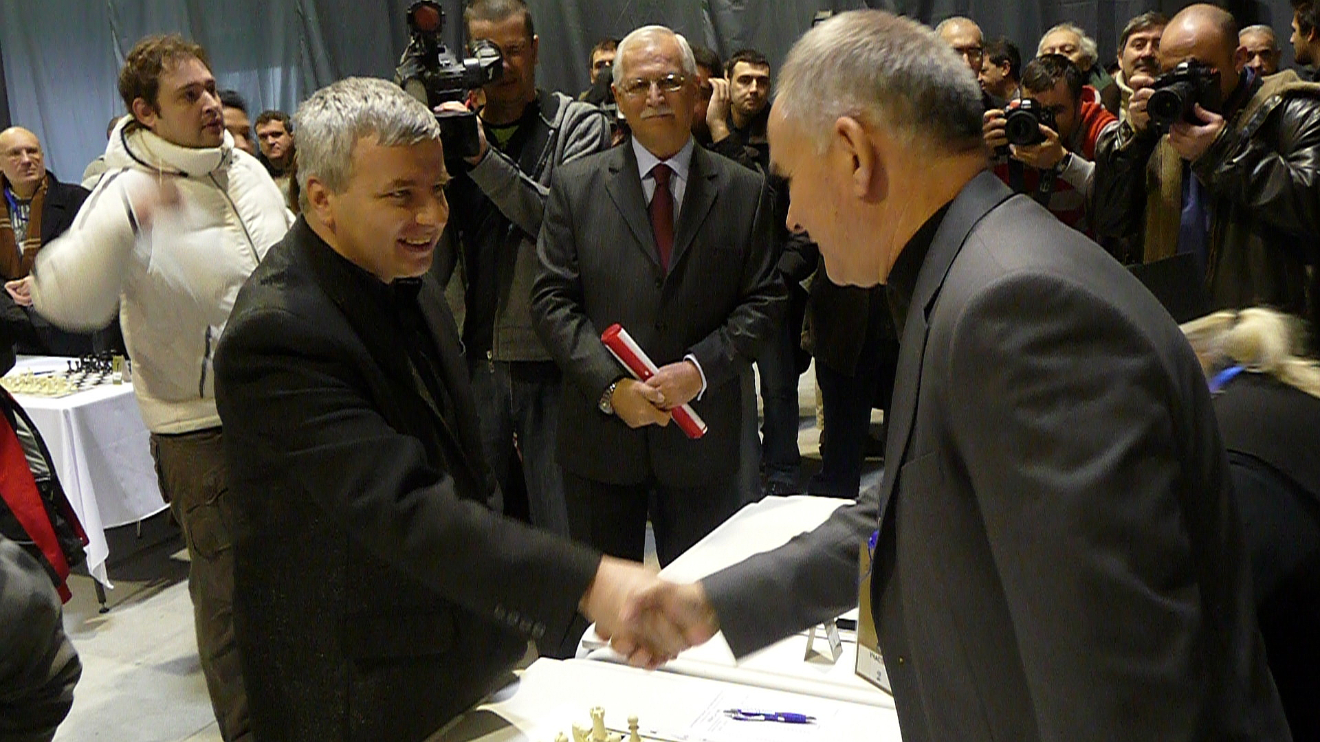 Simul Chess Guinness World Record